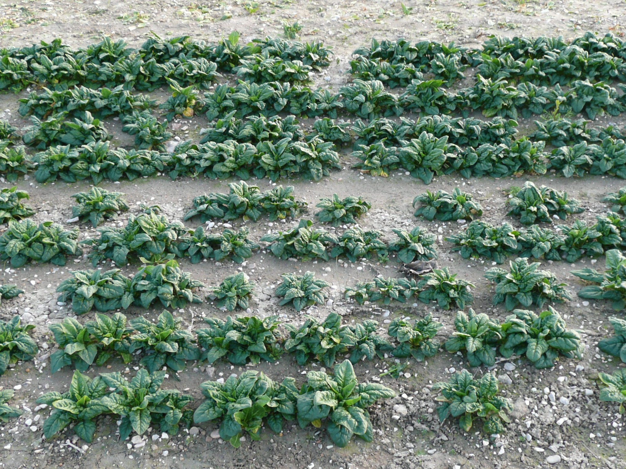 Spinach (Spinacia oleracea) field in Italy